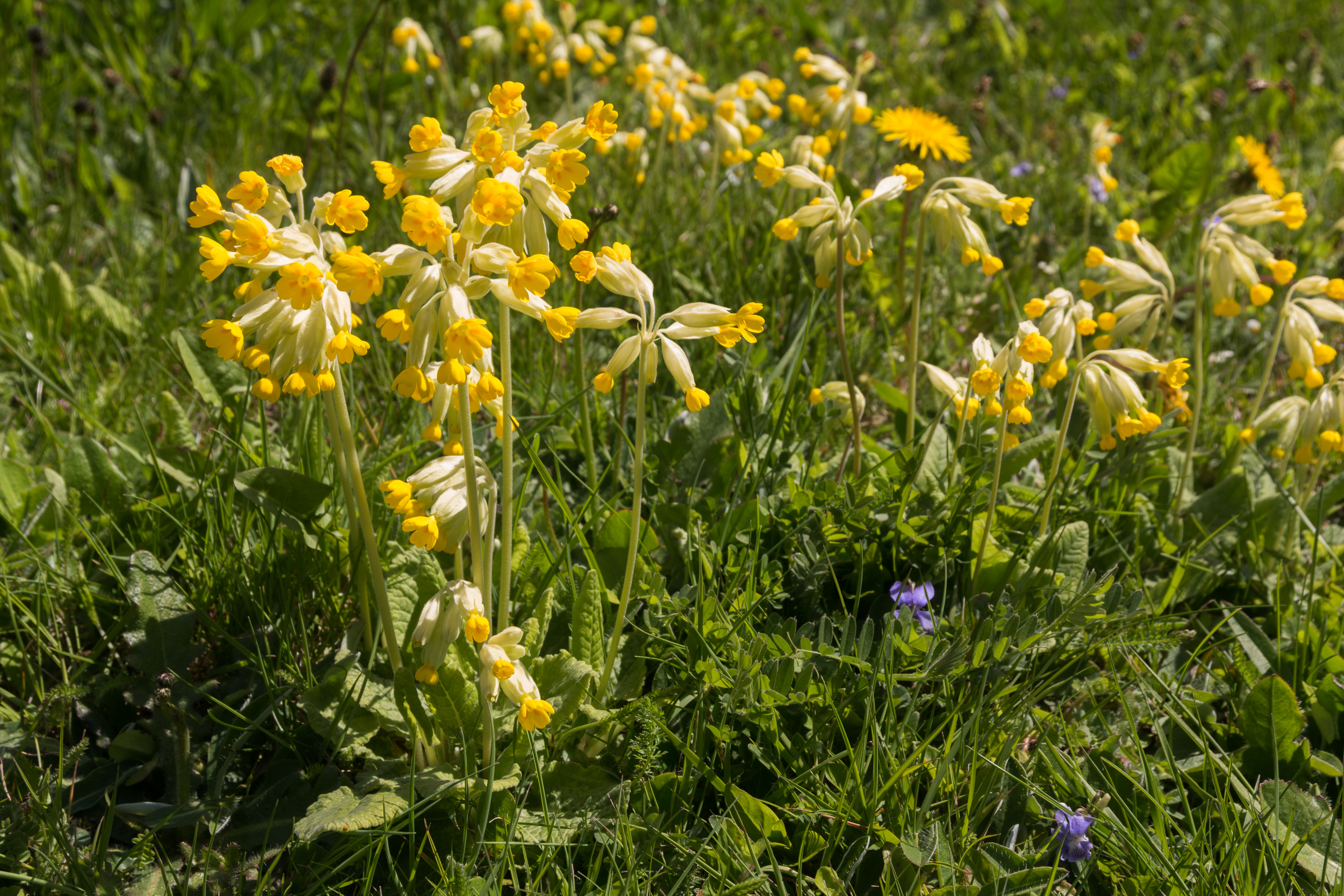 Cowslip.